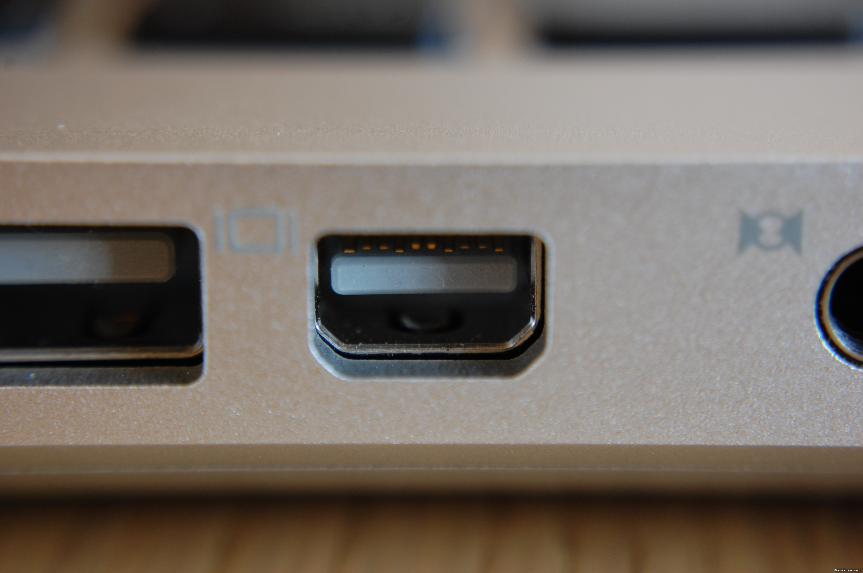 Close-up of the Mini DisplayPort on Apple MacBook.